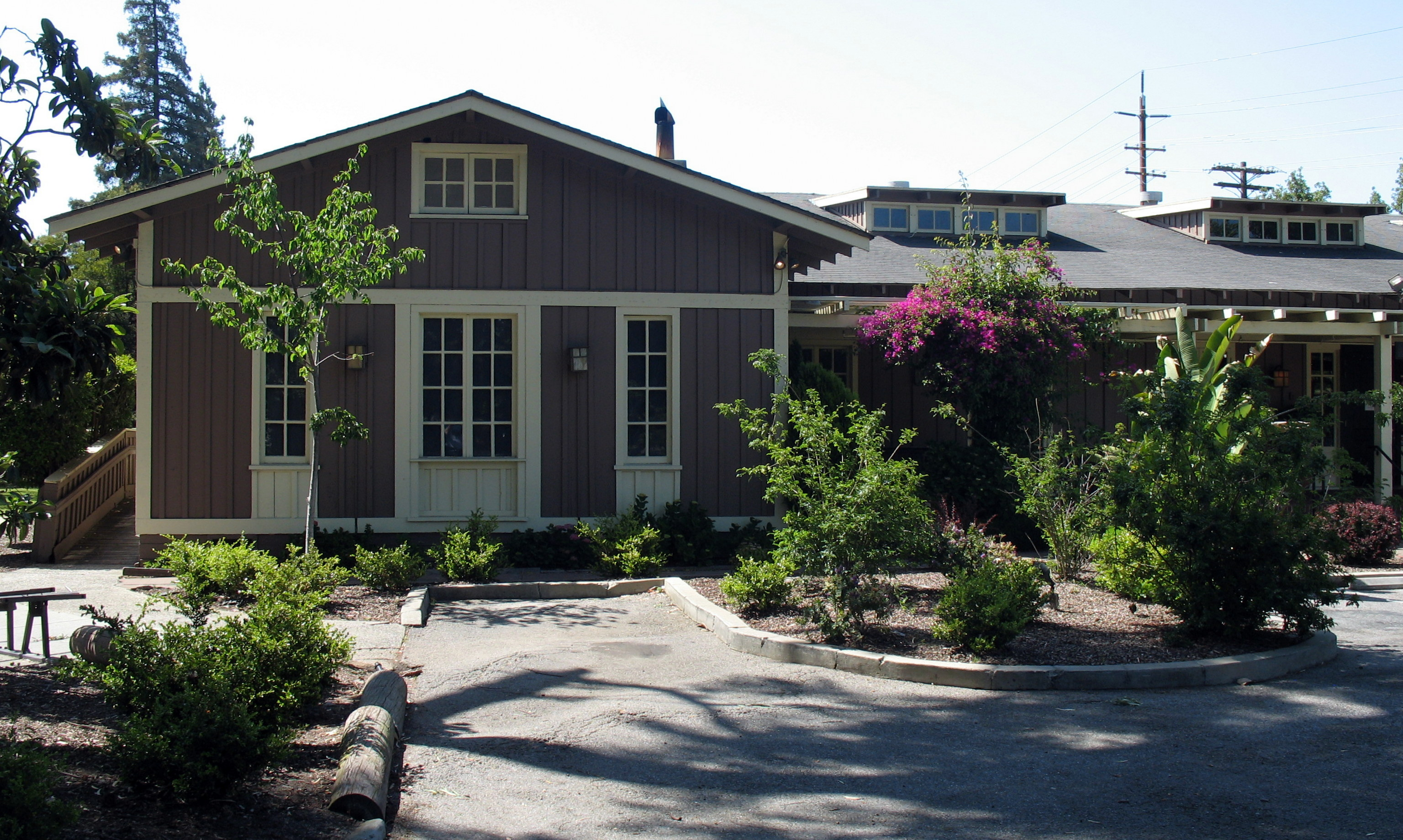 National Register of Historic Places listings in Santa Clara County, California Hostess House, University Ave. at El Camino Real, Palo Alto, CA More images